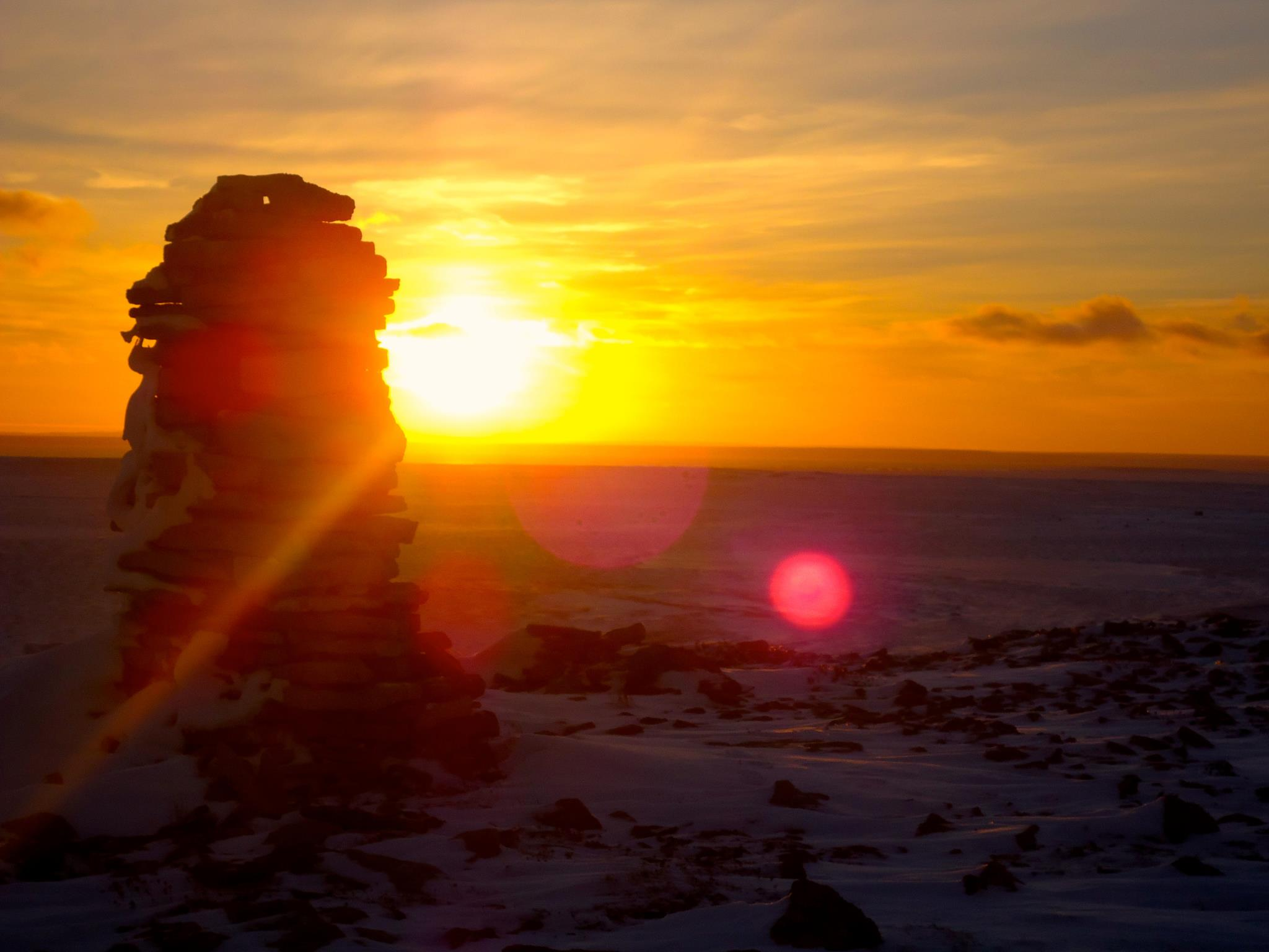 One of the many places in Igloolik, from which you can watch an awe inspiring sun set.